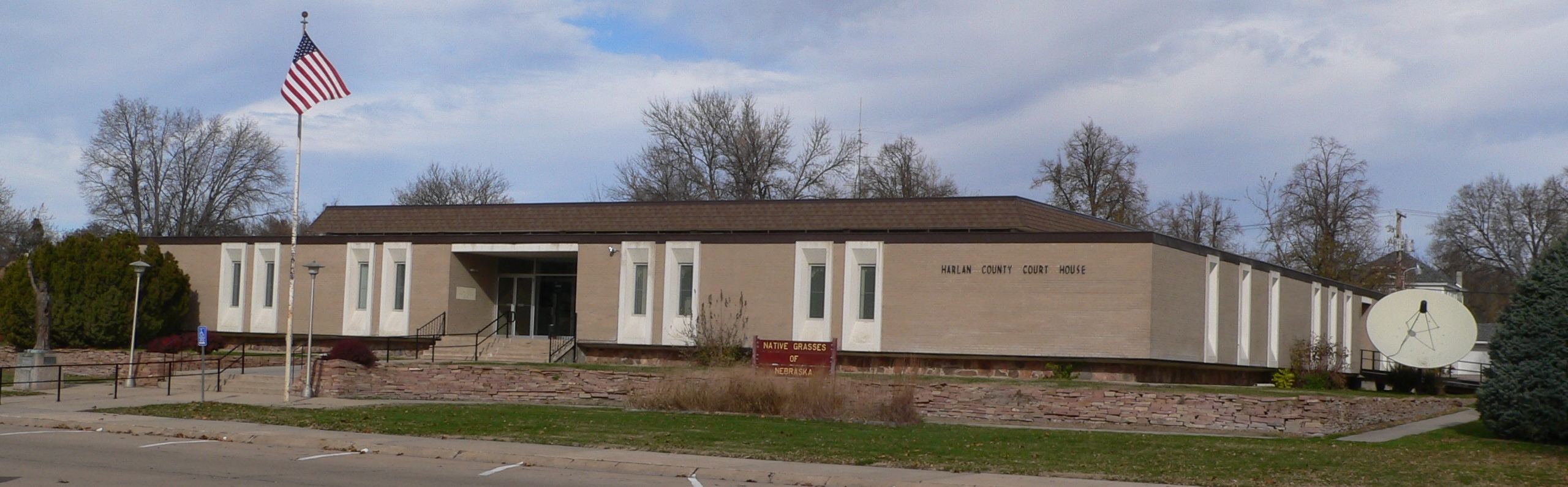 Harlan County courthouse at 706 W. 2nd St. in Alma, Nebraska, seen from the southeast. The courthouse was built in 1964.